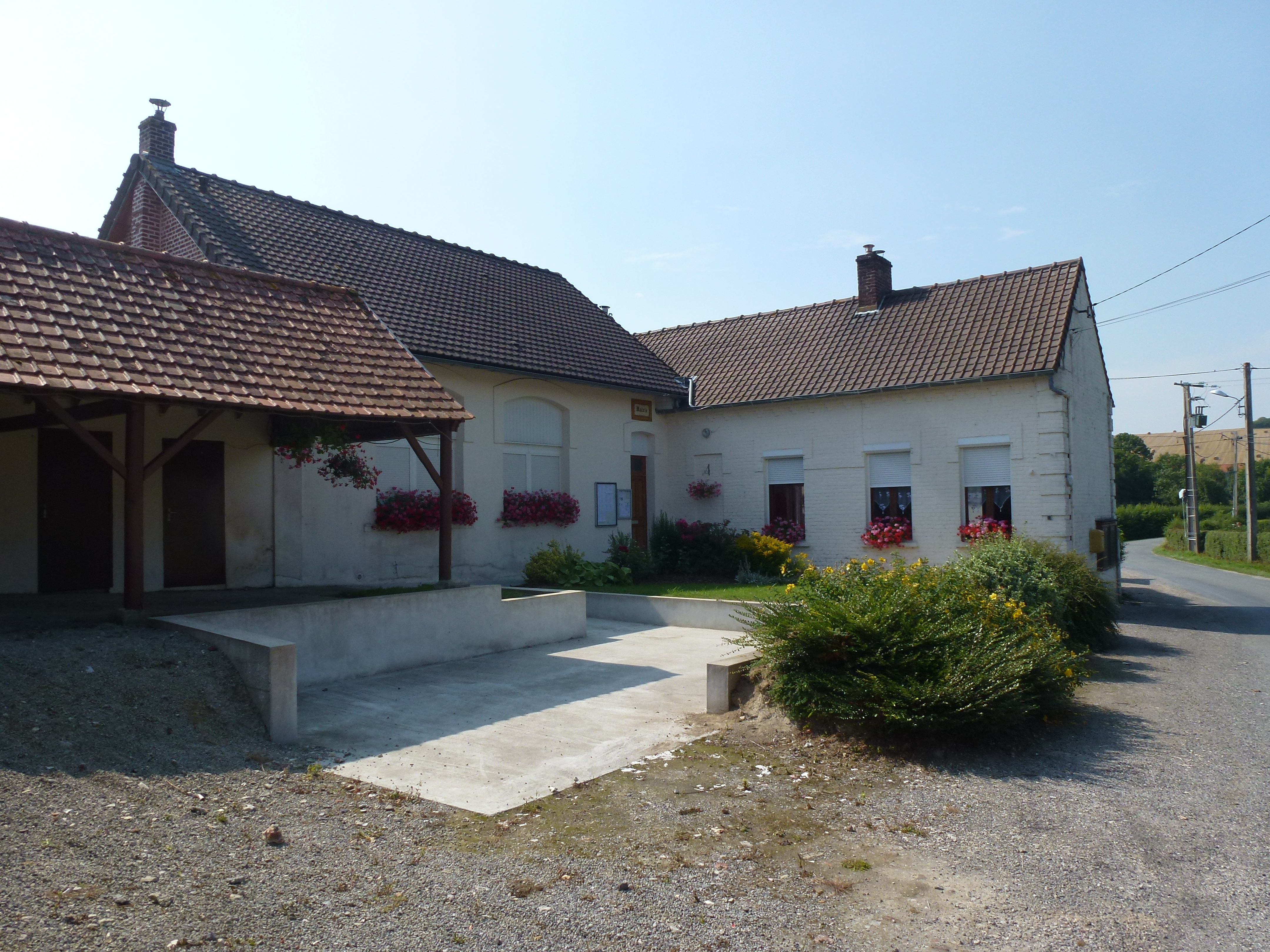 Rebergues (Pas-de-Calais) mairie